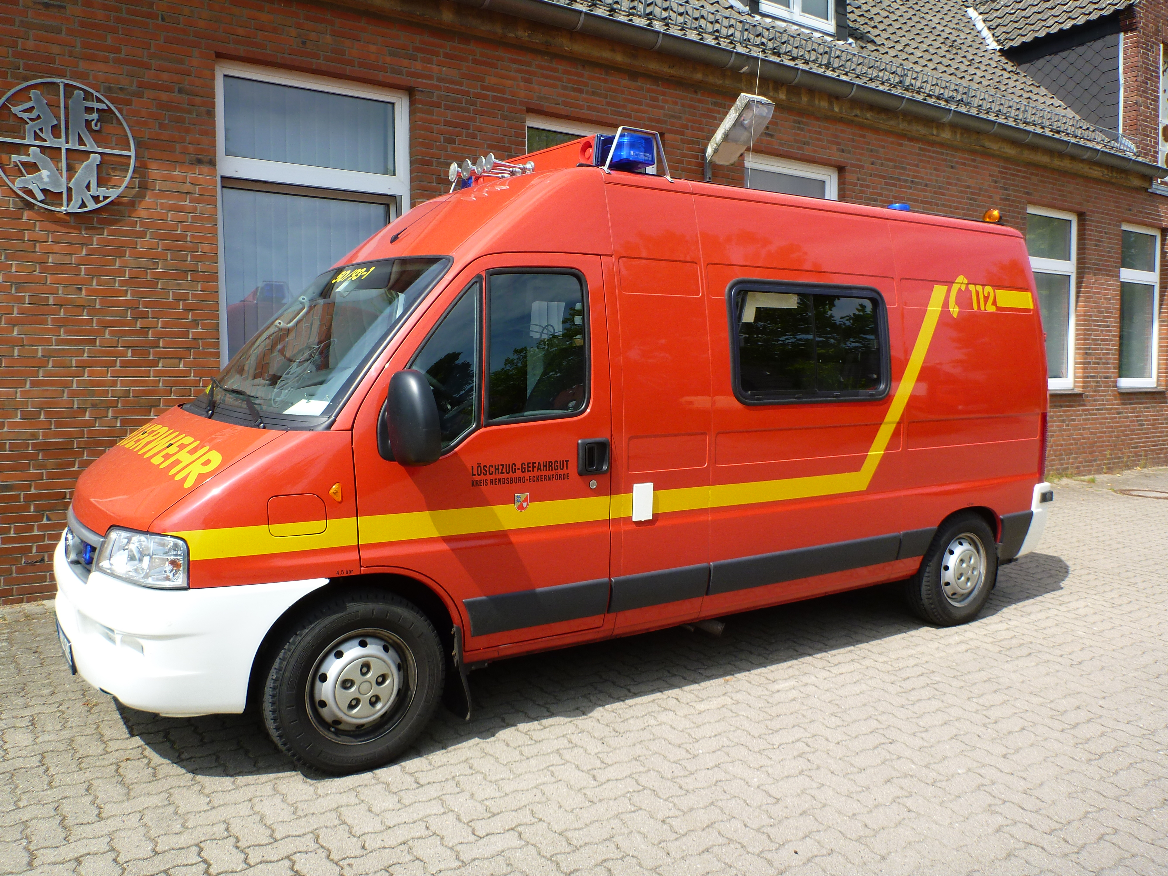 The explorer vehicle for nuclear, biological and chemical threats of the Löschzug-Gefahrgut, Rendsburg-Eckernförde